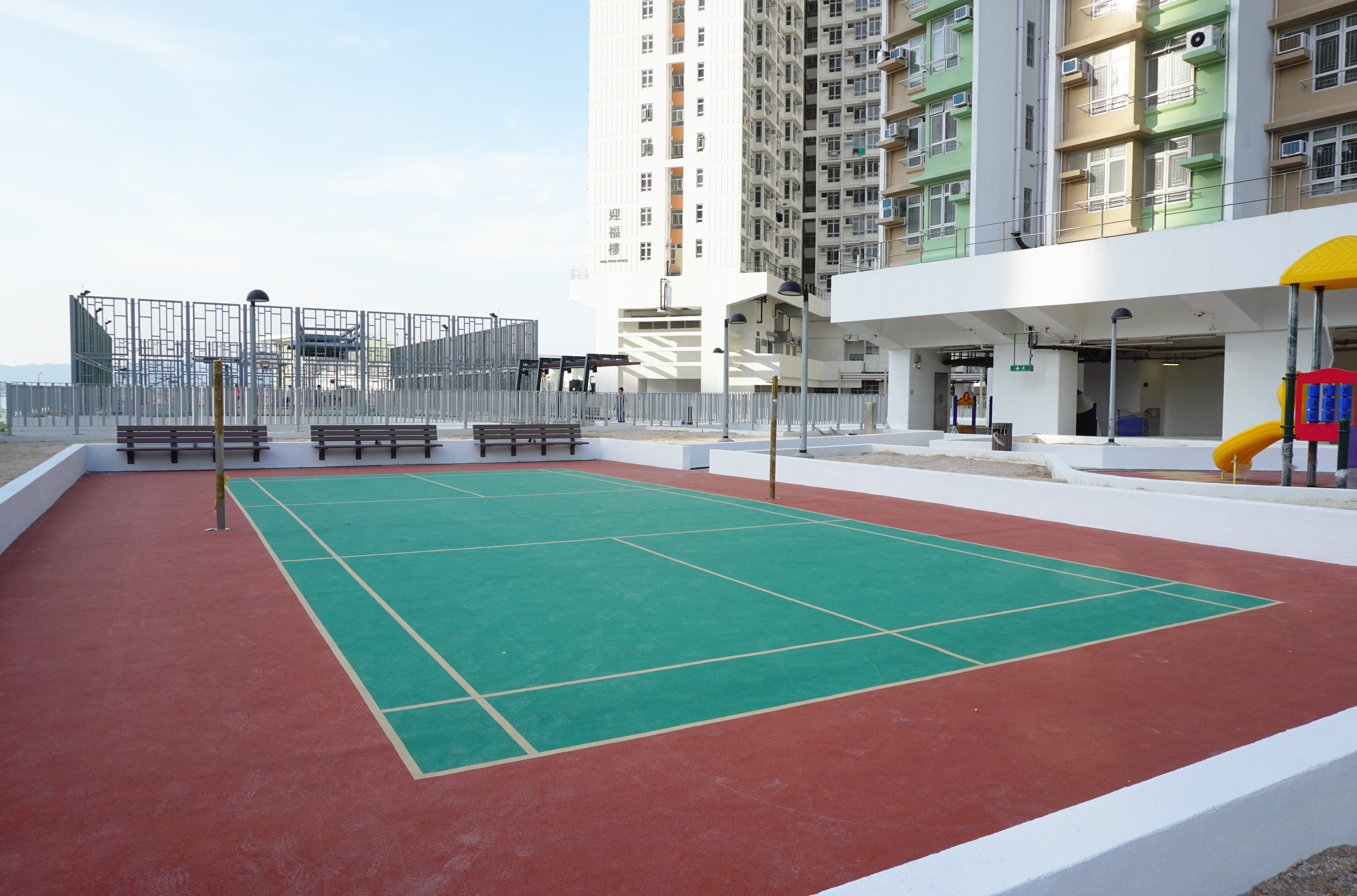 Ying Tung Estate in Tung Chung, Hong Kong.